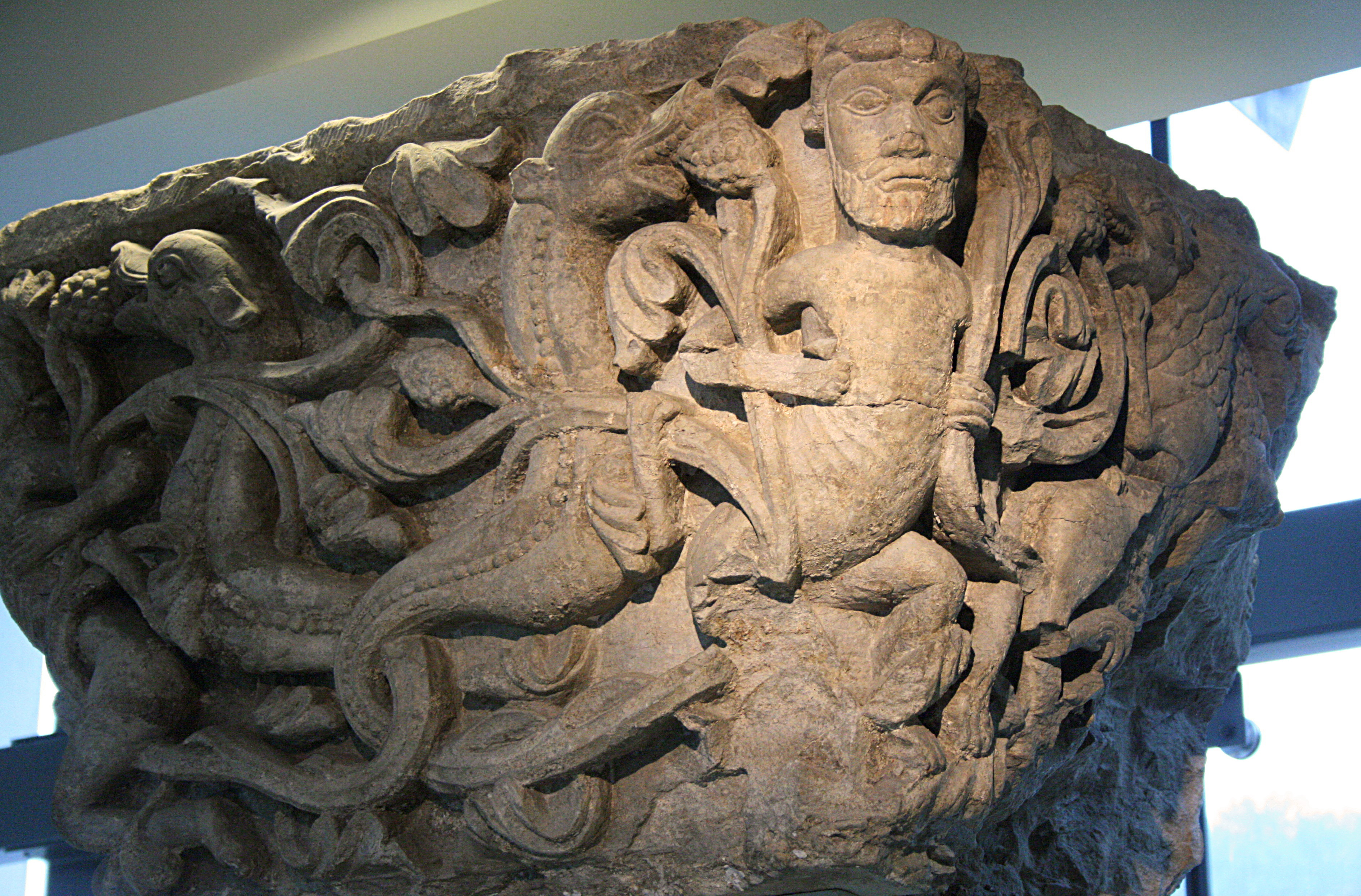 Romanesque capital from the Saint-Lambert cathedral in Liège (around 1180). Grand Curtius Museum, Liège, Belgium